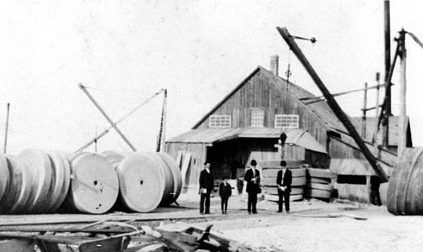 Grindstones ready to be shipped in Stonehaven, New Brunswick, circa 1920.